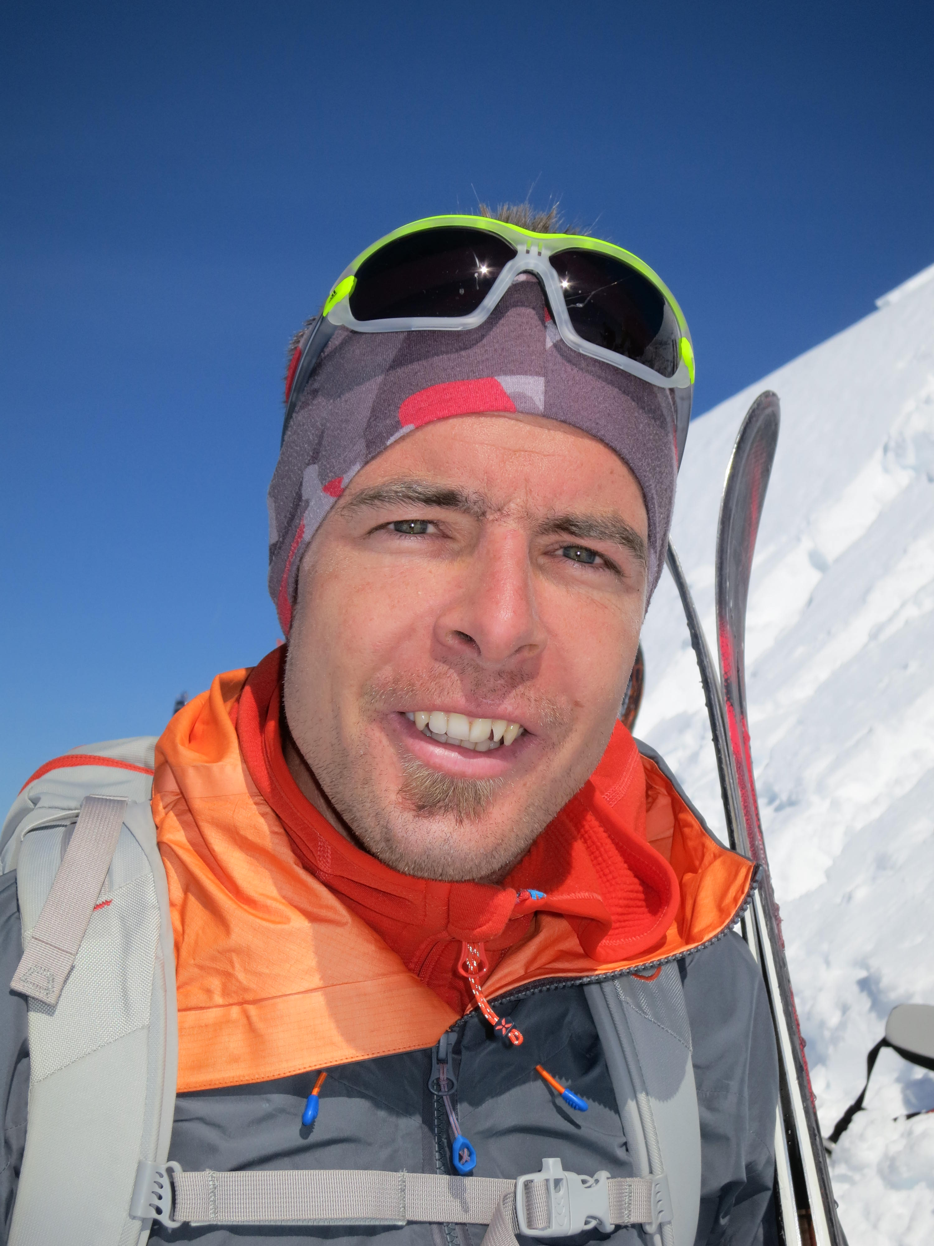 Dani Arnold on a ski tour on the Schärhorn